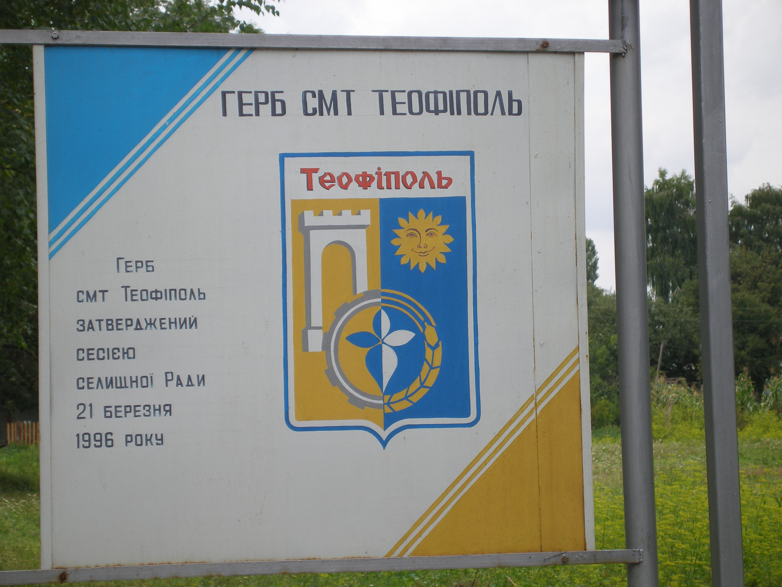 Photo of coat of arms of Teofipol town, Ukraine.